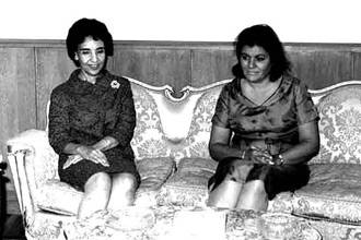 Queen Fatima of Libya (left) with Mrs. Tahia Abdel Nasser (right), the wife of the Egyptian President (1956-1970) Gamal Abdel Nasser.